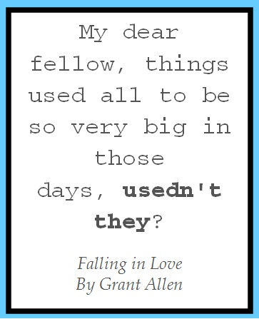 My dear fellow, things used all to be so very big in those days, usedn't they? Falling in Love By Grant Allen